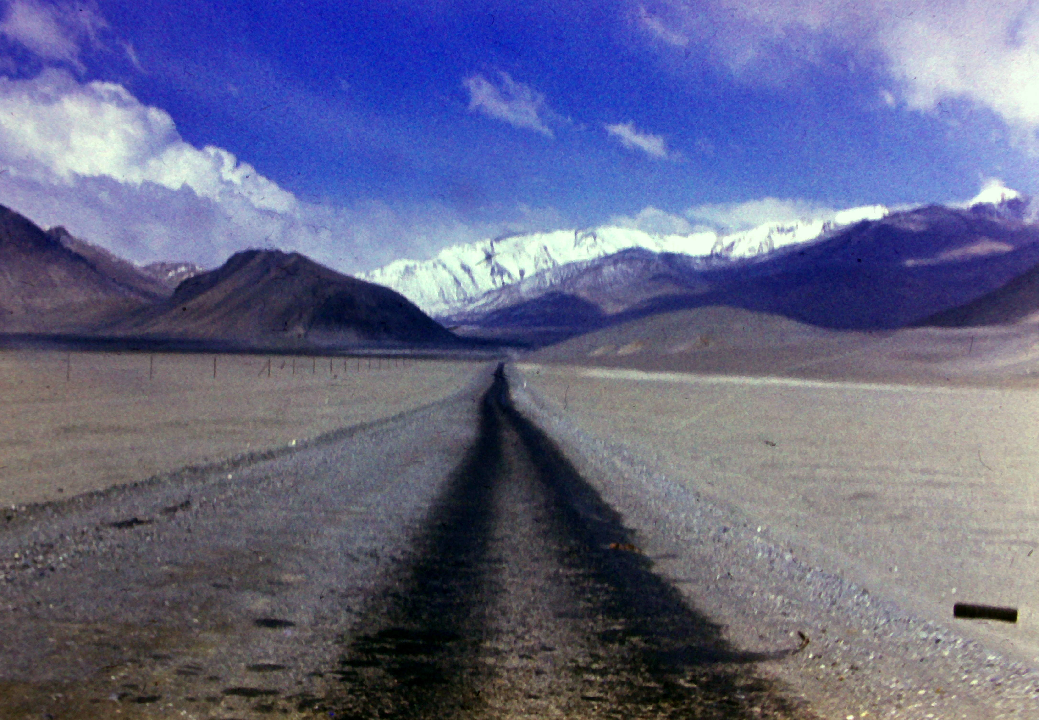 Pamir Highway near Murghob